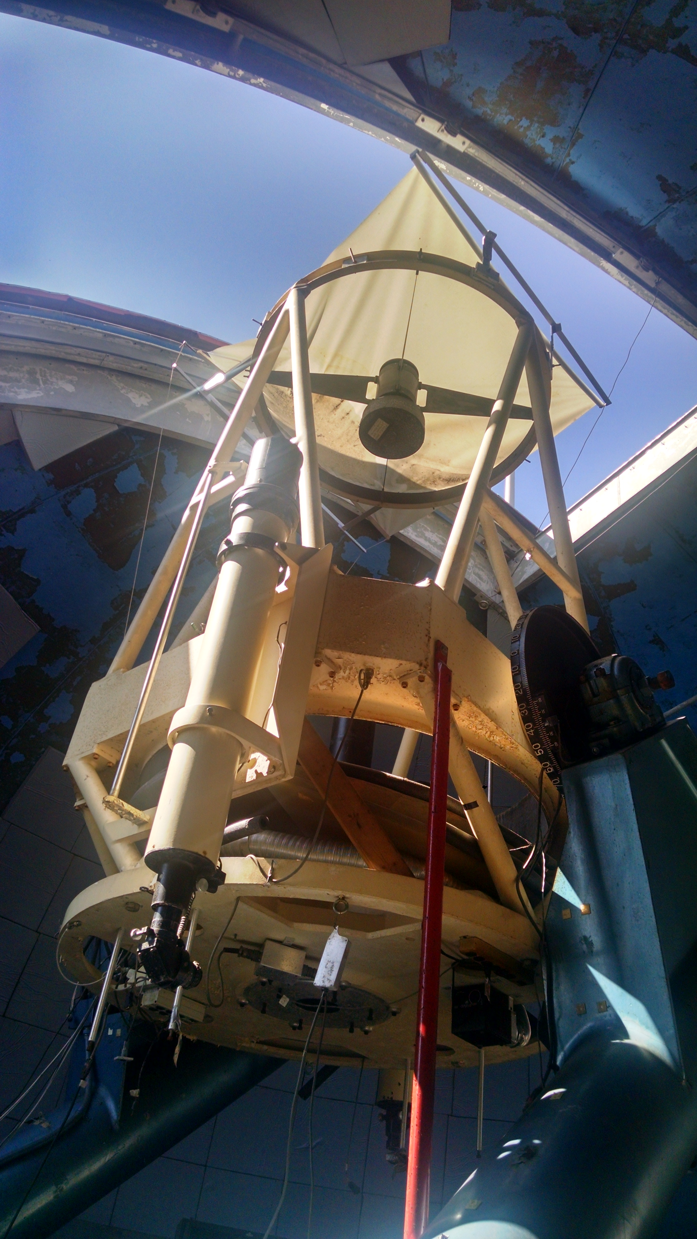 Abandoned Telescope 2016